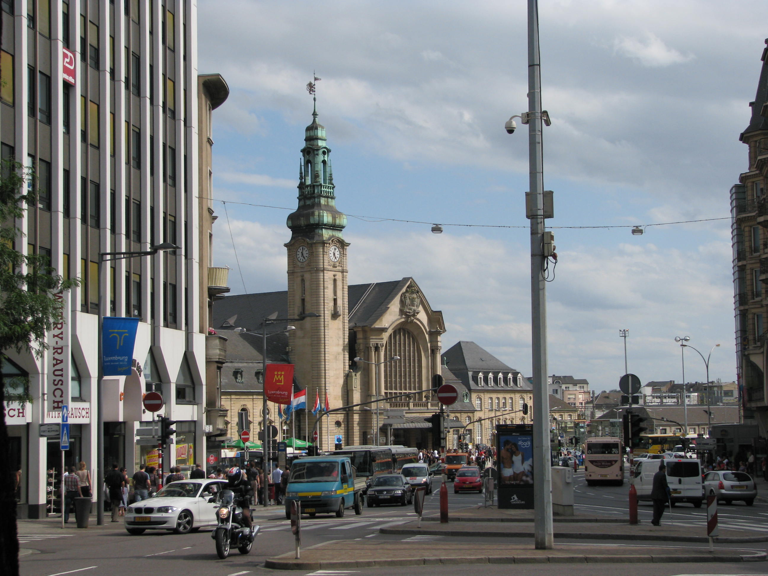 Gare, Luxembourg